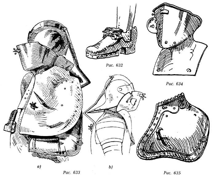 Different Parts for tournament armours